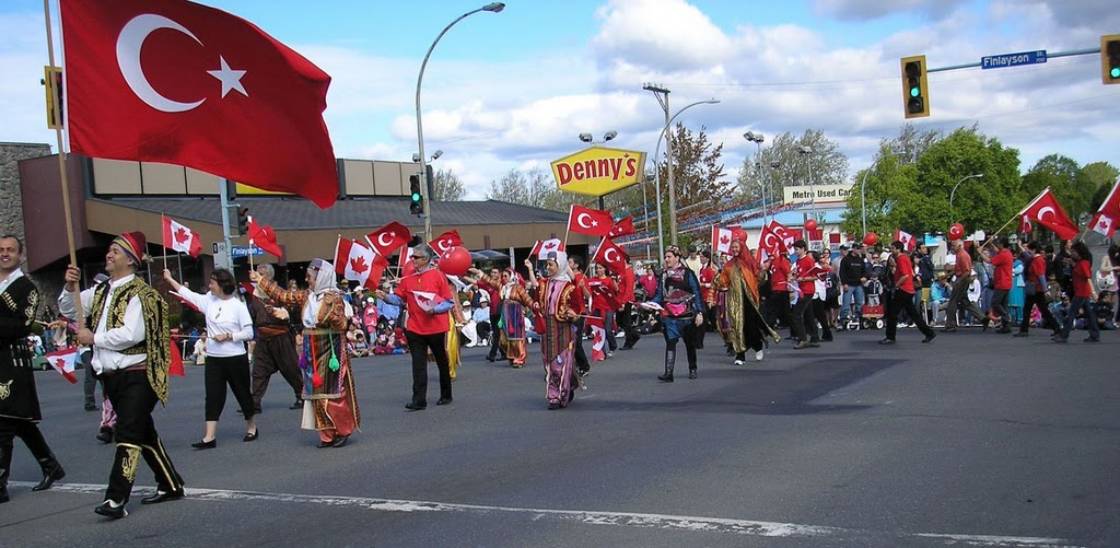 Turkish Candians at the 2007 Victoria Day Parade.